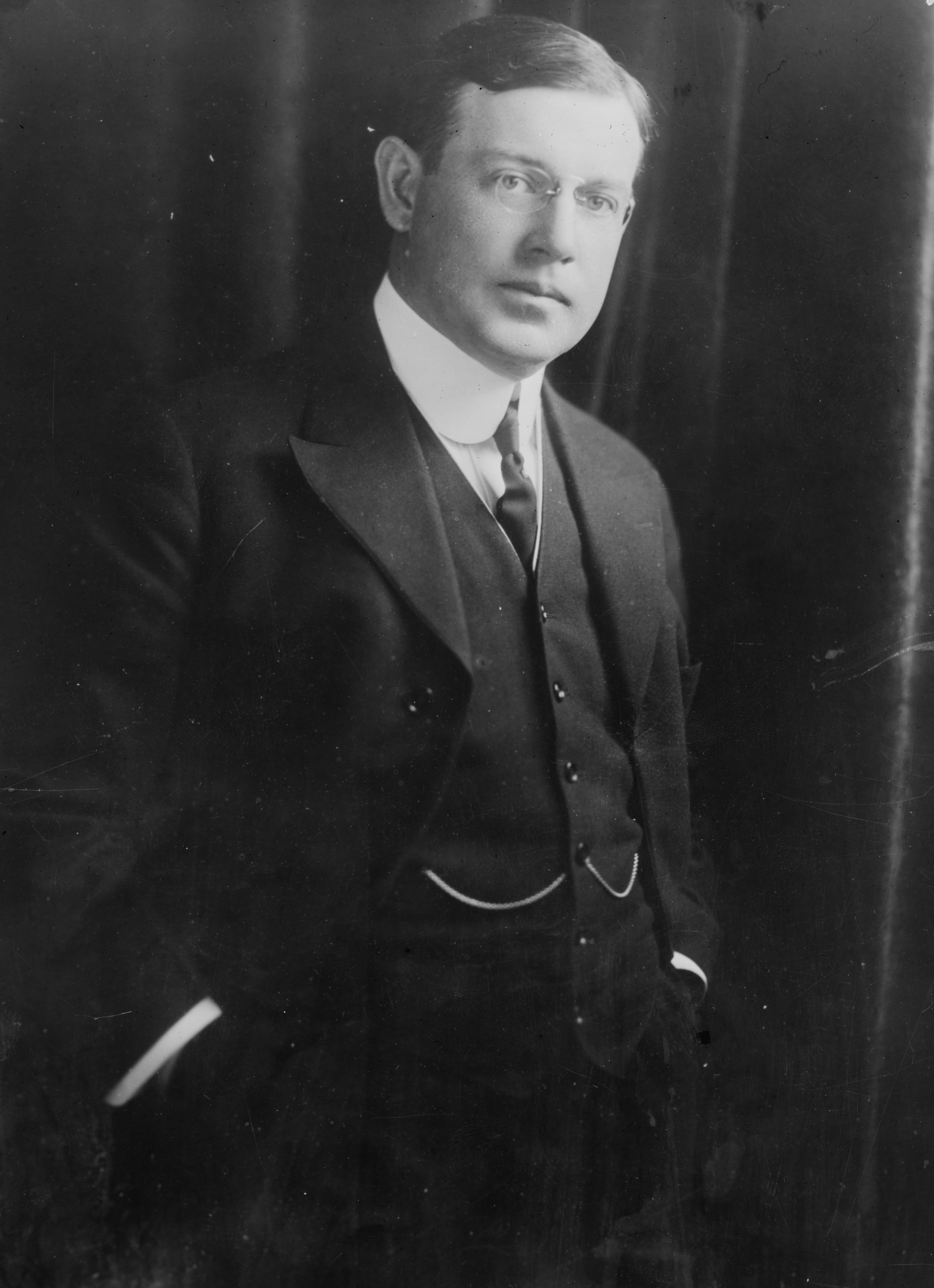 Walter Evans Edge (1873-1956) circa 1915